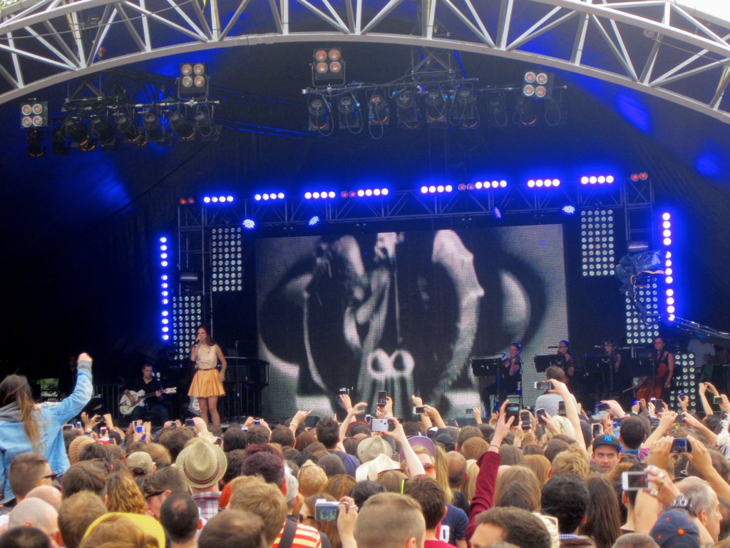 Lana Del Rey at Lovebox 2012